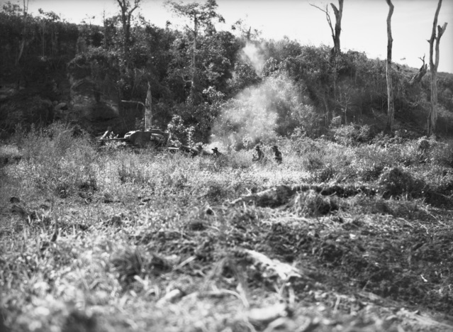 Australians from the 2/4th Infantry Battalion attack Japanese positions around Wewak, supported by Matilda tanks from the 2/4th Armoured Regiment